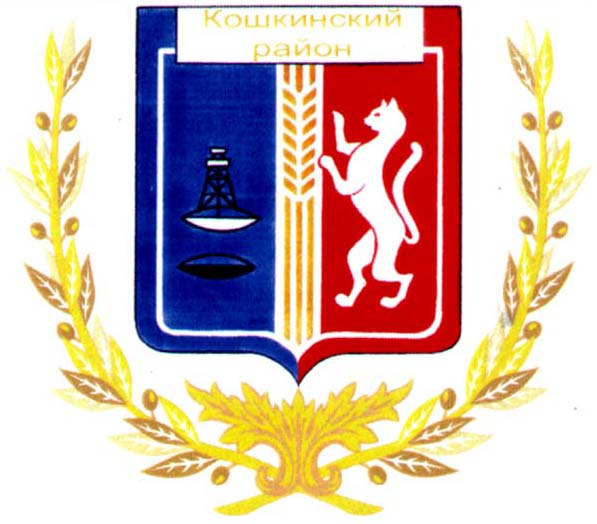 Koshkinsky District (Samara Oblast), coat of arms Чӑвашла: Кушкӑ районӗ (Самар облаҫӗ), герб